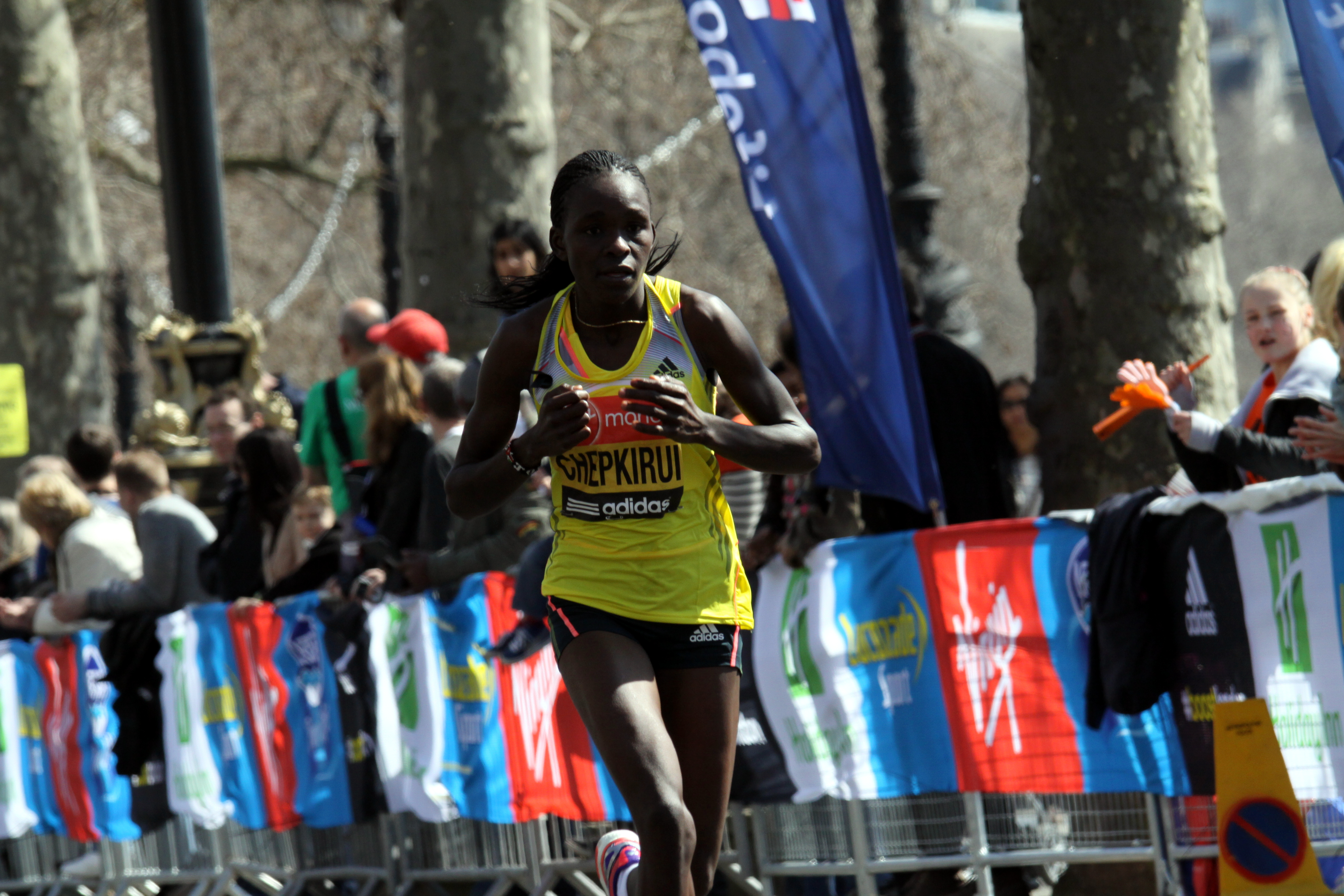 Joyce Chepkirui during 2013 London Marathon, photographed at Victoria Embankment, London, Great Britain. The making of this file was supported by Wikimedia UK.